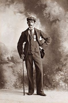 This is an 1898 photo of Fred Herd, winner of the 1898 U.S. Open golf championship.